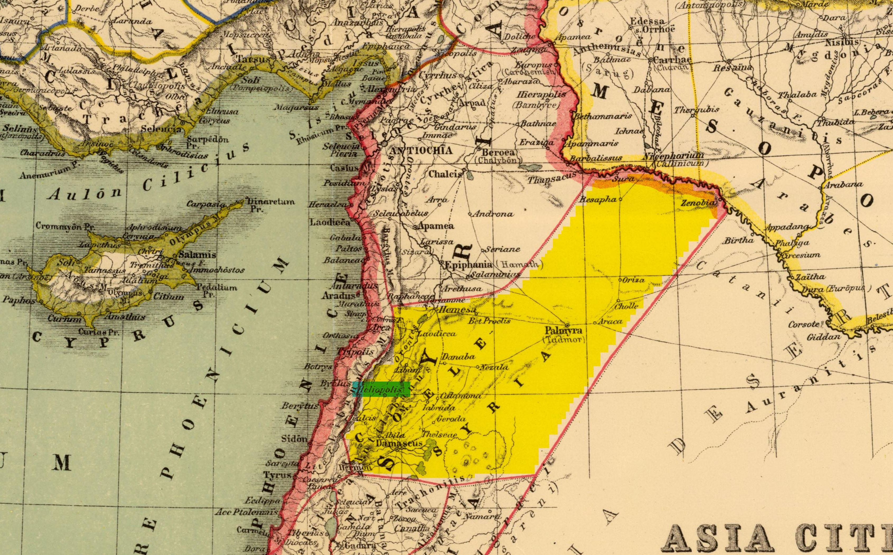 Heliopolis noted in Coele Syria map with yellow background, from Asia citerior. Auctore Henrico Kiepert Berolinensi. Geographische Verlagshandlung Dietrich Reimer (Ernst Vohsen) Berlin, Wilhemlstr. 29. (1903). Heliopolis was assumed to be the city of Triparadeisus, where the Partition of Triparadisus was agreed by Alexander the Great's Diadochoi.